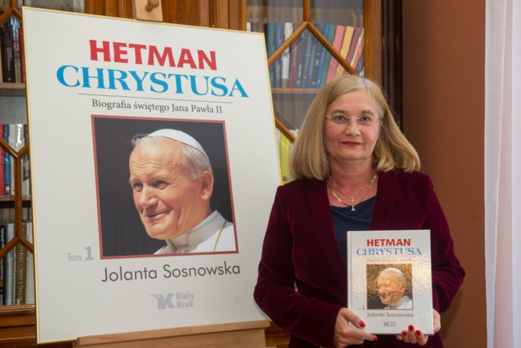 The polish book author Jolanta Sosnowska during the presentation of her book "Hetman Chrystusa".